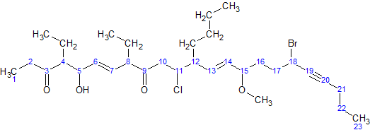 This is an image of the molecule of 18-bromo-12-butyl-11-chloro-4,8-diethyl-5-hydroxy-15-methoxytricos-6,13-diene-19-yne-3,9-dione. The carbons in the parent chain are removed. To see the molecule with all carbons included, see Image:IUPAC naming example with carbons.png This may or may not be a real molecule. This is being used to show the basic principles of IUPAC naming. Its SMILES is: CCC(=O)C(CC)C(O)/C=C/C(CC)C(=O)CC(Cl)C(CCCC)/C=C/C(CCC(Br)C#CCCC)OC